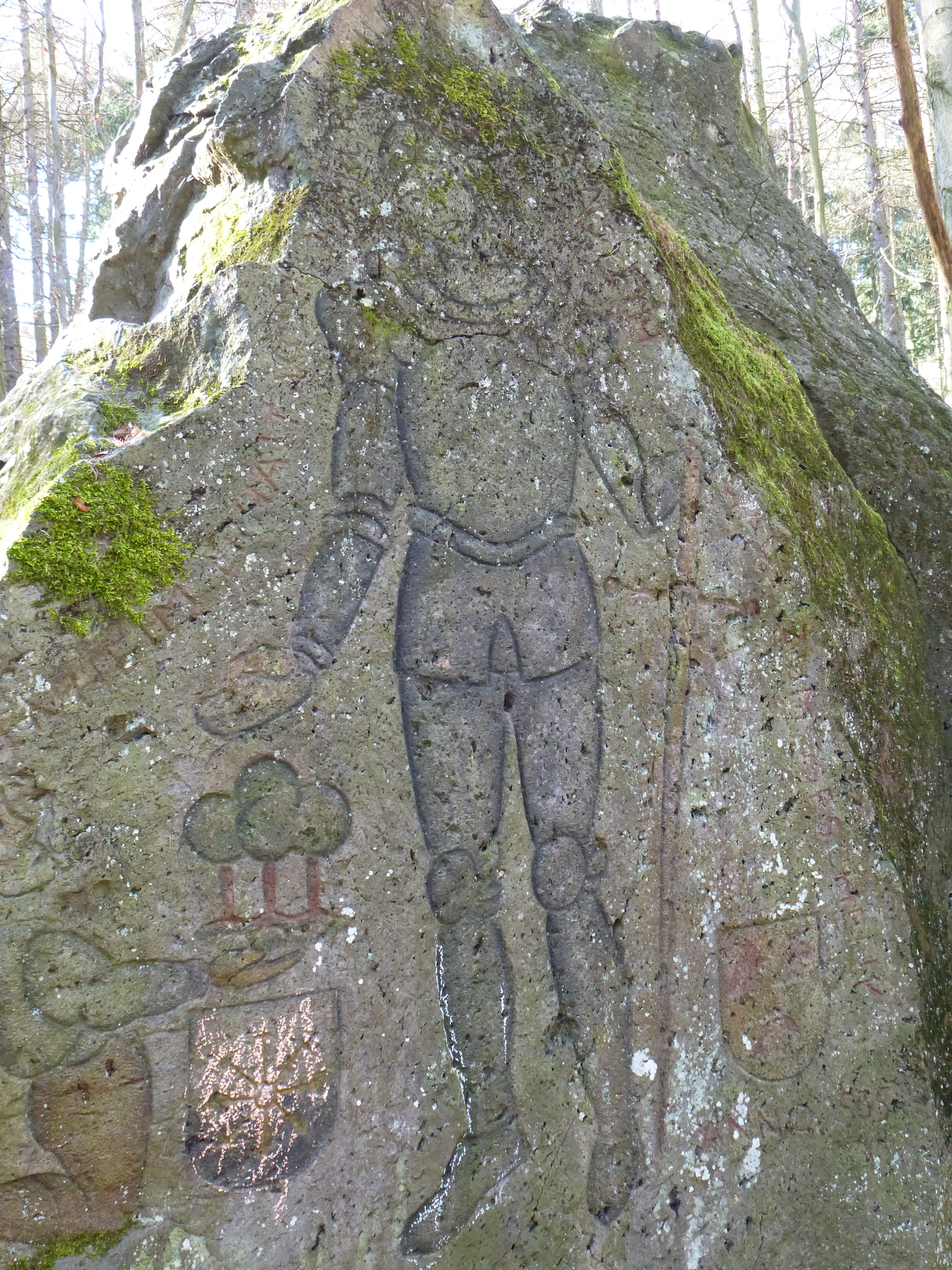 Relief of Junker Schilling on a basalt boulder in the Kottenheim forest, recreation area "Auf der Birk" (district of Mayen-Koblenz, Rhineland-Palatinate, Germany)